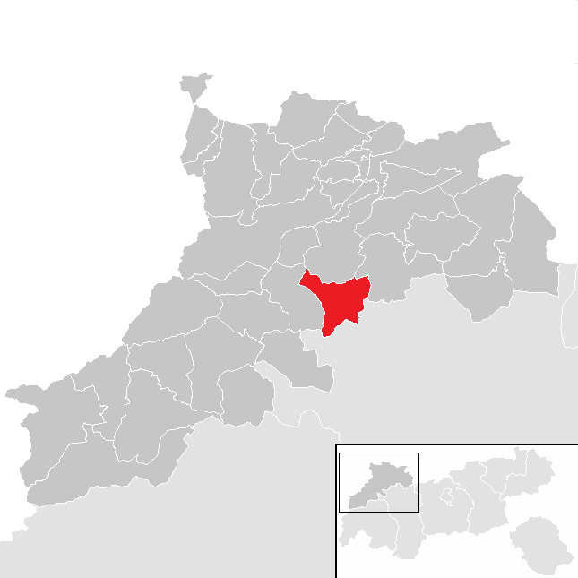 District Reutte